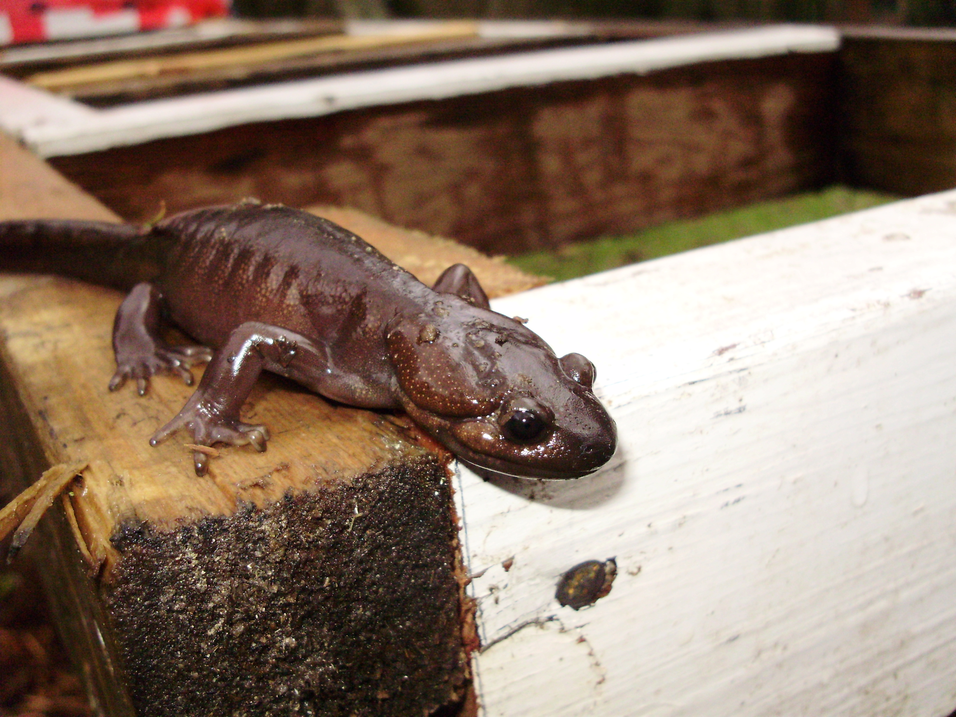 Northwestern Salamander (Ambystoma gracile) I found and posed for the picture a few minutes before releasing it. Picture taken in Langley, BC.